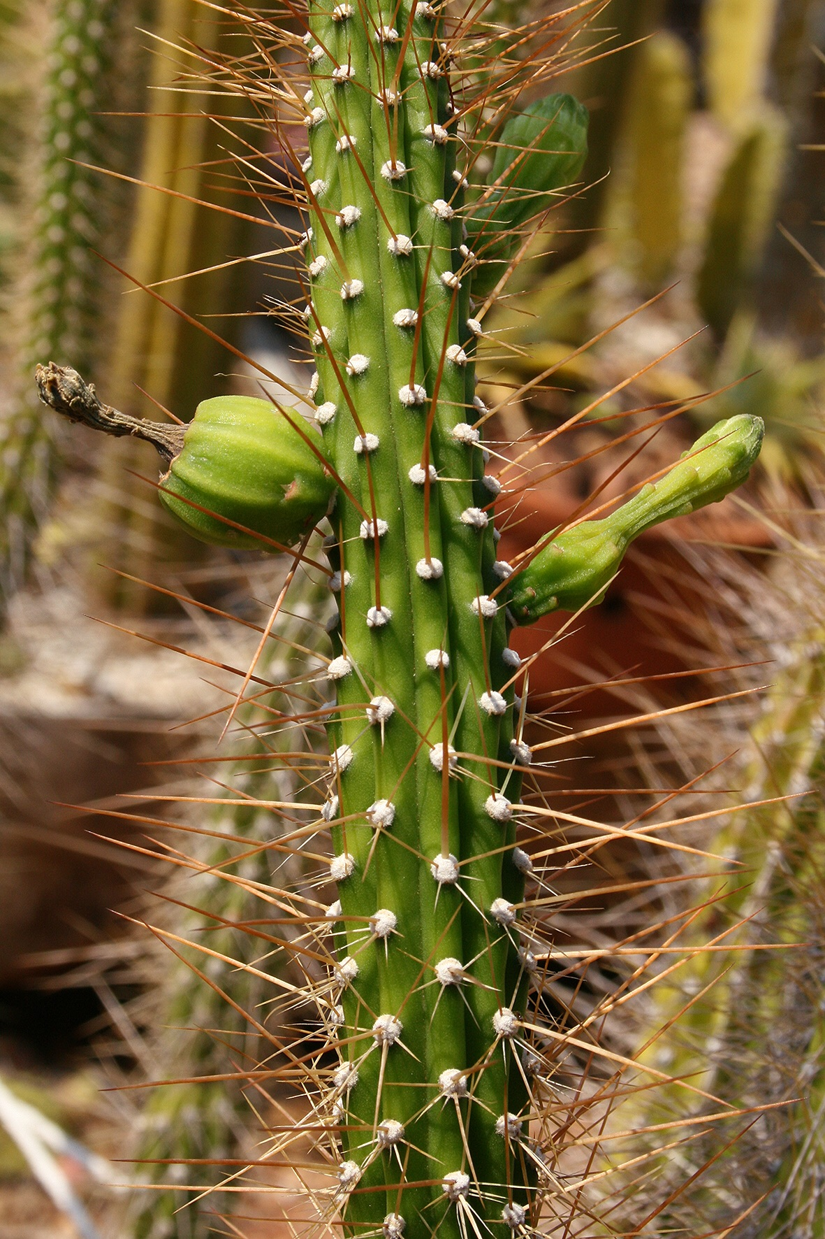 Plant of holotype collection, fruiting, NW Bahia, Brasil